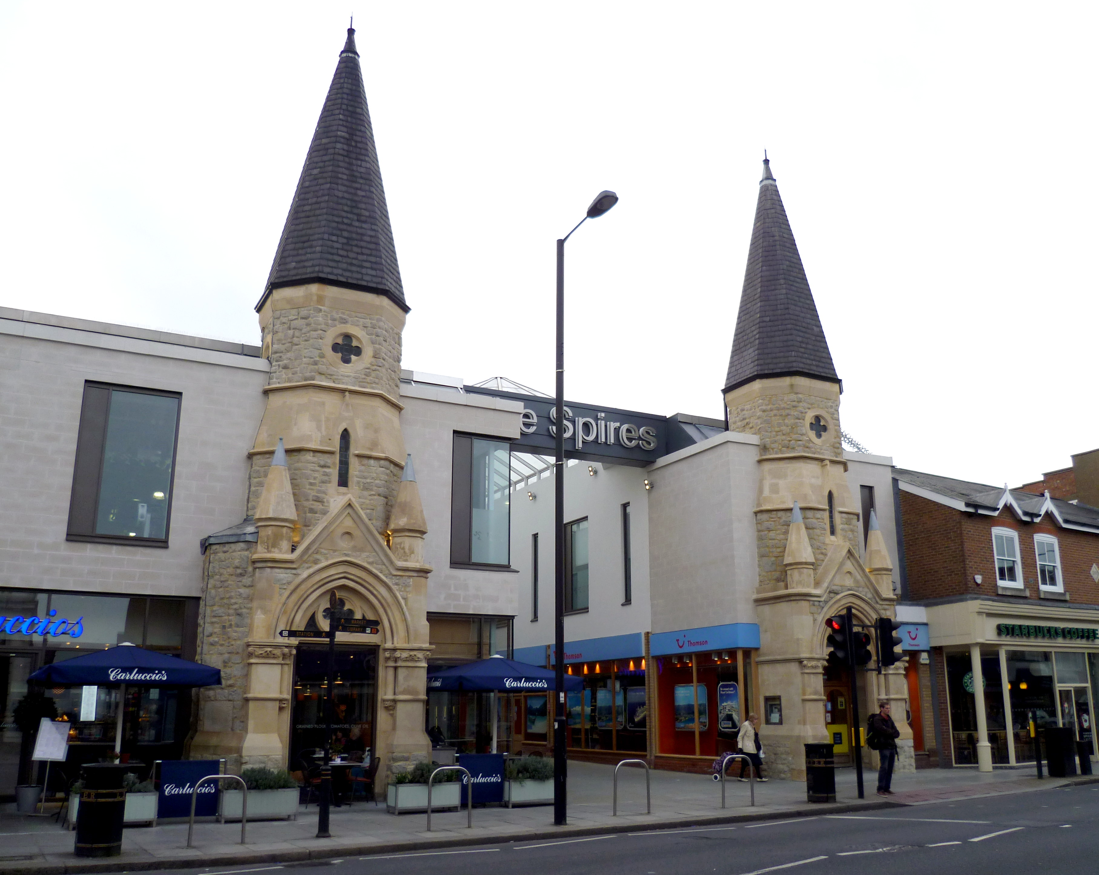 The Spires, Chipping Barnet 10 October 2015